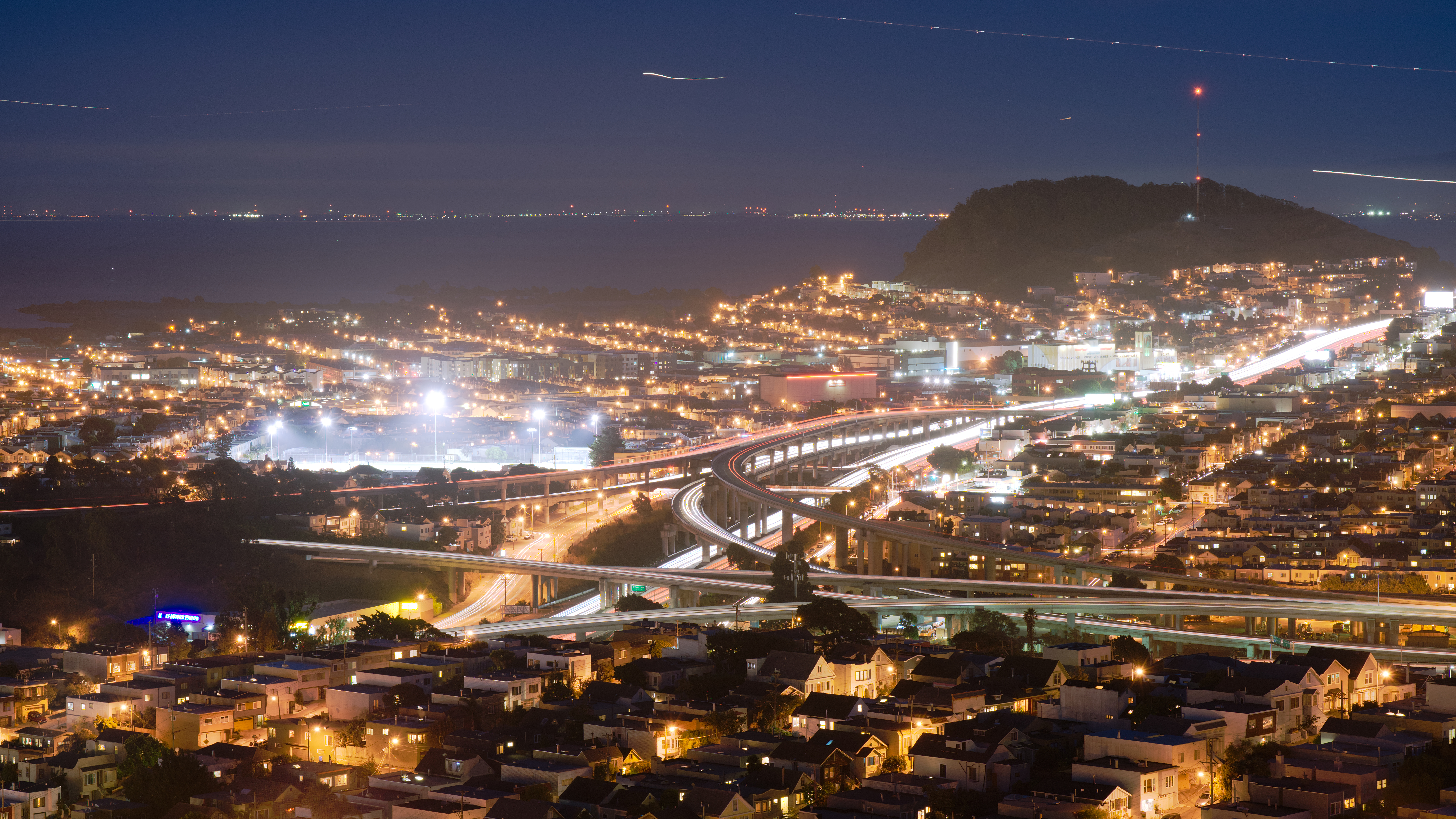 View of San Francisco from Bernal Heights at night. An interchange between U.S. Route 101 and Interstate 280 is visible.